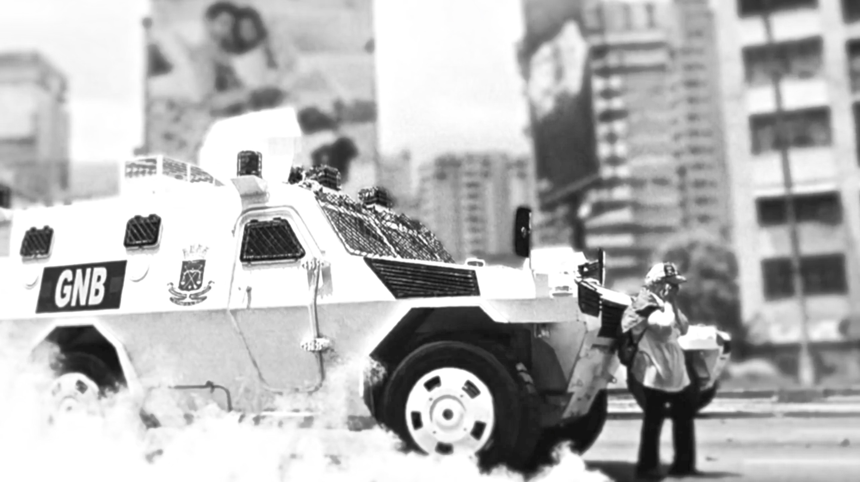 The "Tank Woman" during the Mother of All Marches in Caracas, Venezuela.